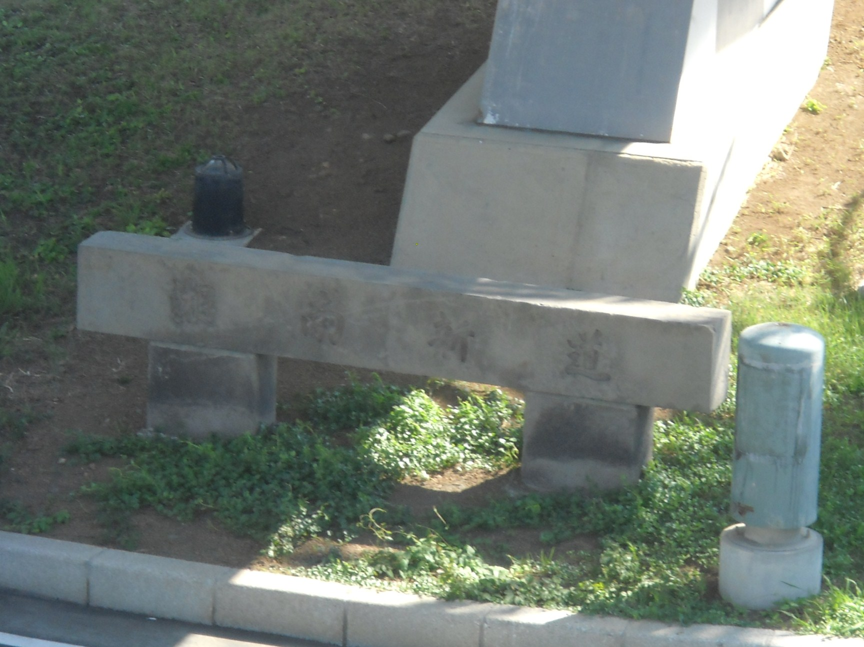 Shonan shindo stone monument, Hamasuka crossing, Chigasaki city, Kanagawa pref., Japan